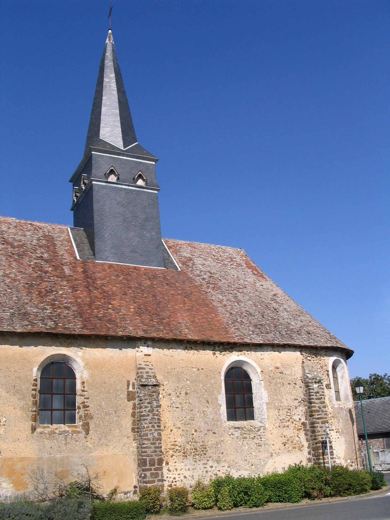 The church of Le Poislay, Loir-et-Cher, France